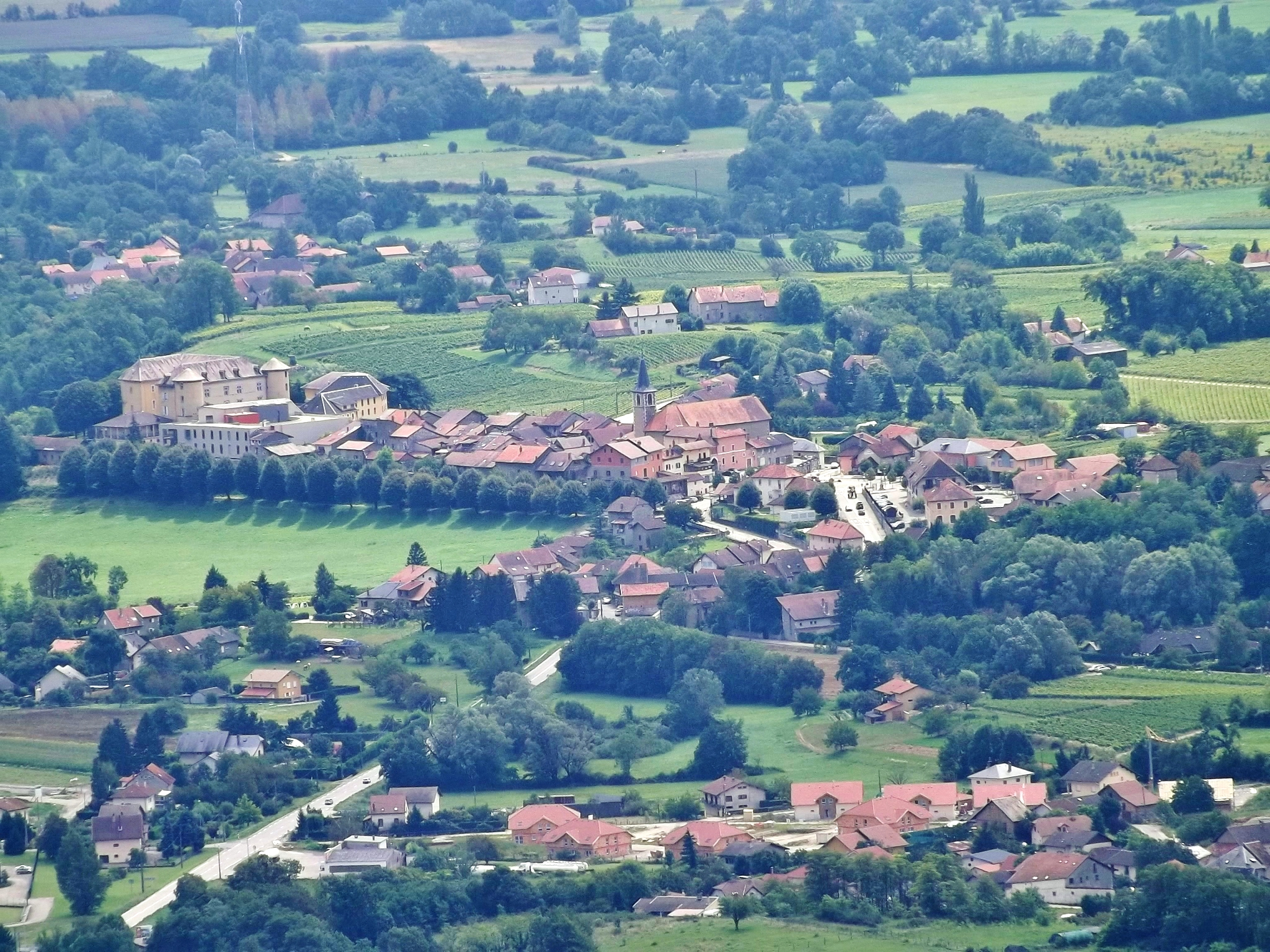 Aerian sight of the French commune of Les Marches center, near Chambéry in Savoie.